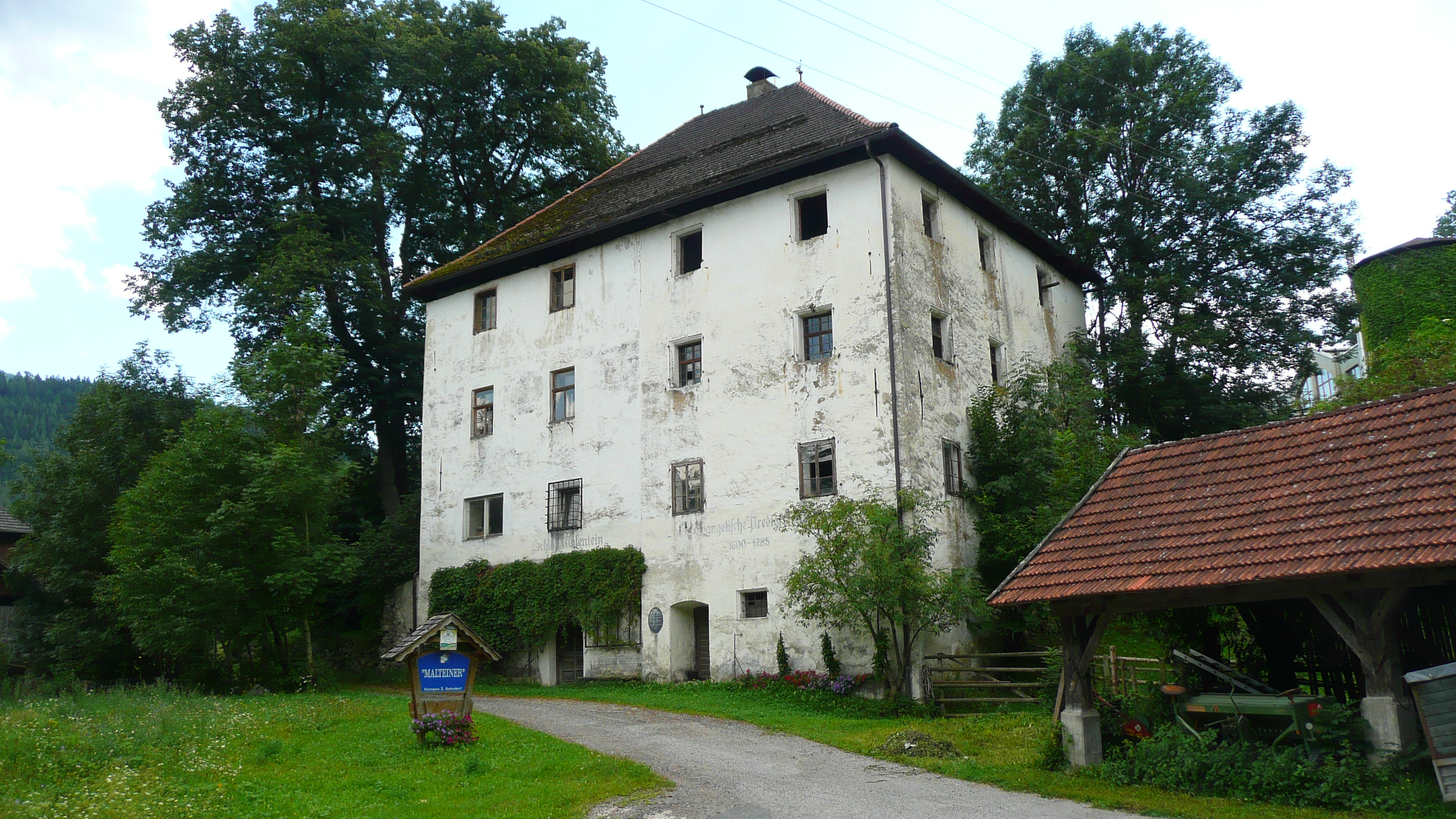 Malentein castle in Trebesing-Radl, Austria